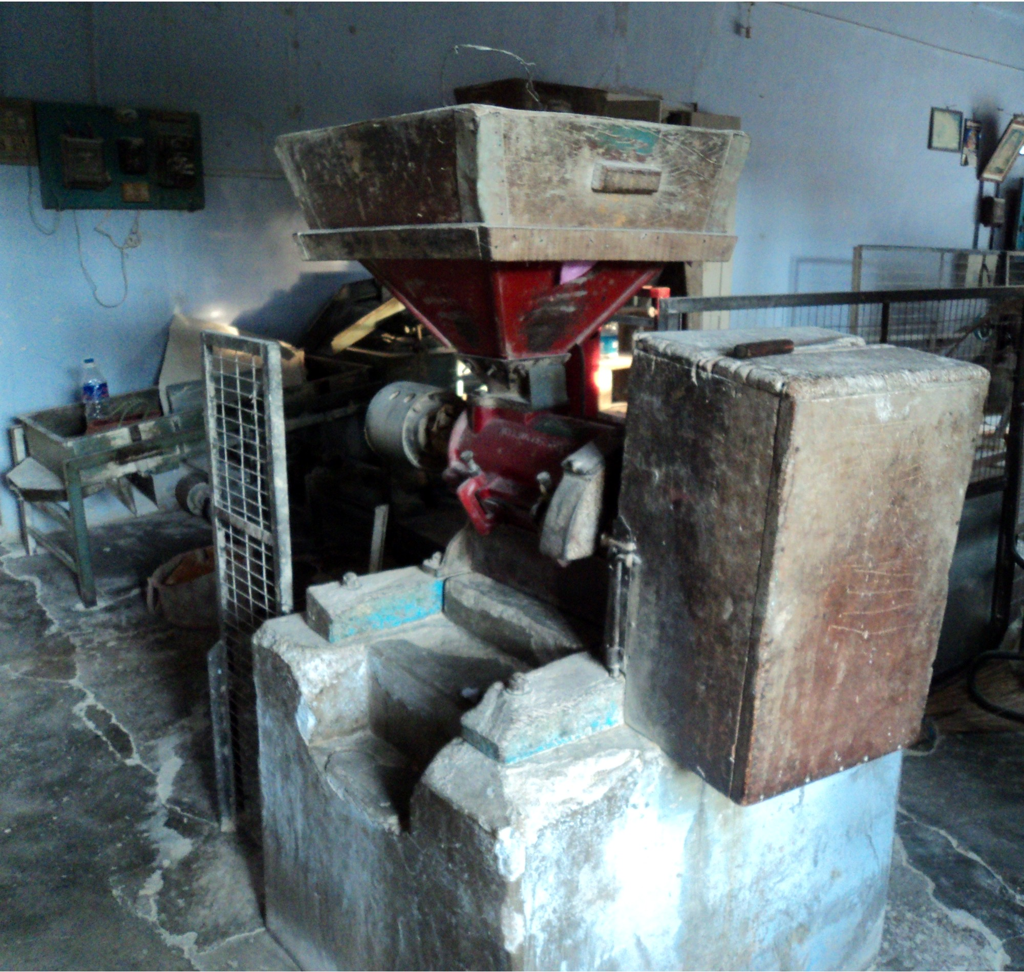 a Rice mill